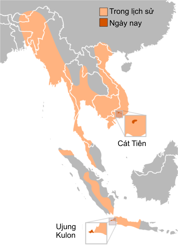 A modern and historical range map of the Javan Rhinoceros (Rhinoceros sondaicus)